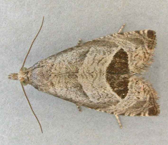 Notocelia uddmanniana, Dyffryn, North Wales, June 2007